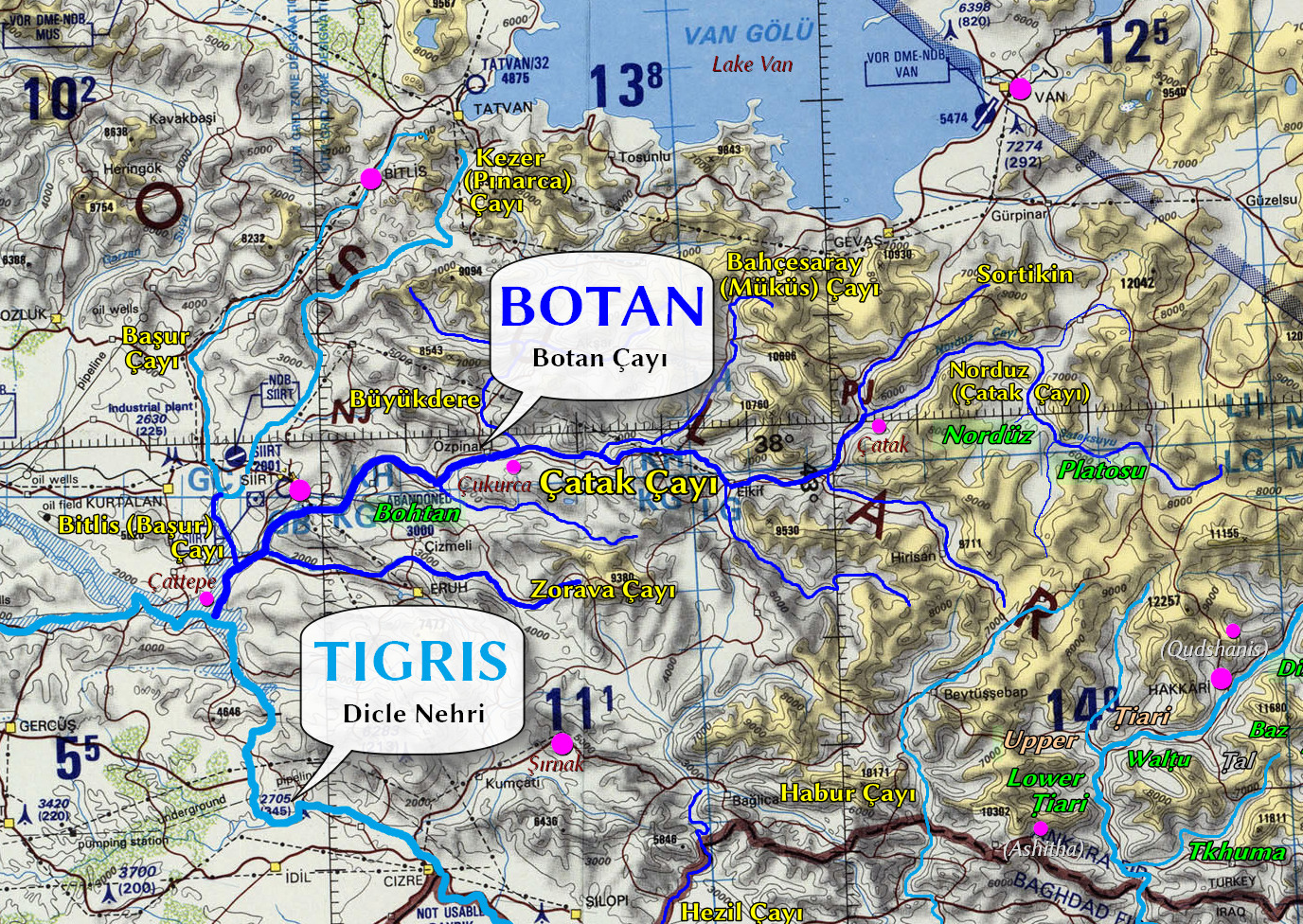 This is a cropped version of File:Van-Mosul.jpg (see below), highlighting the Botan River and its tributaries.